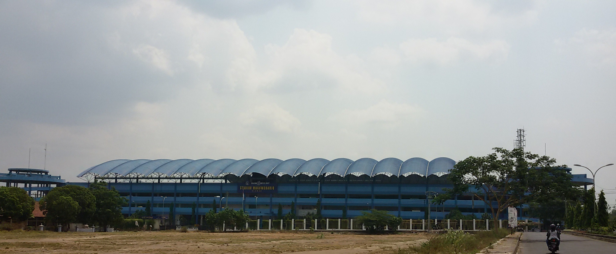 Maguwoharjo Stadium in 2015